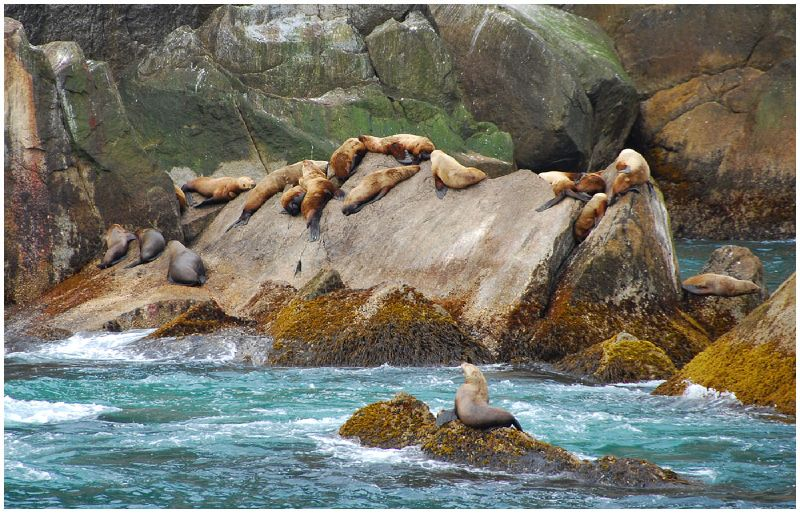 Group of sea lions on No Name Island, Resurrection Bay, Alaska